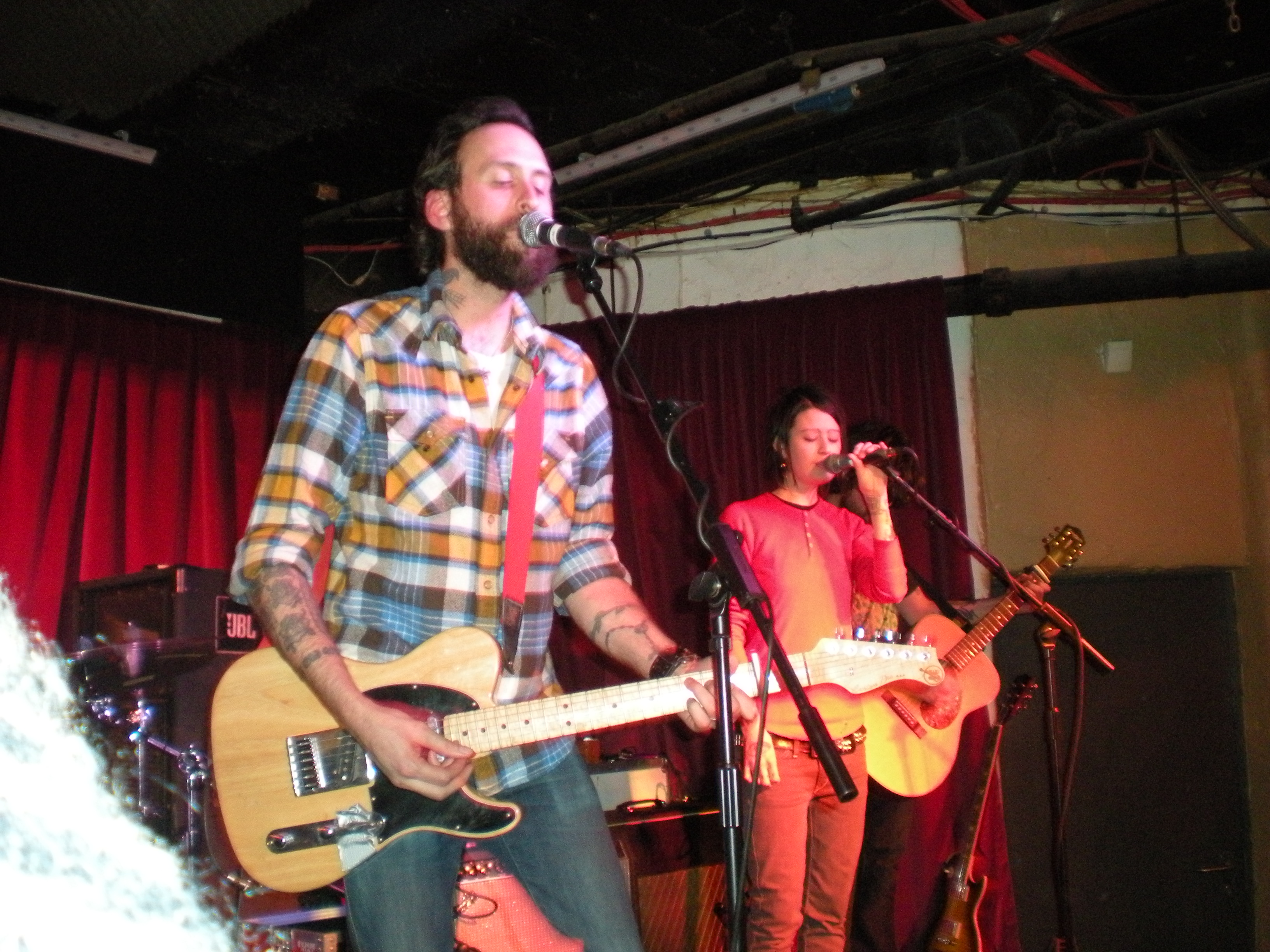 Grand Archives at The Borderline, London 5th February 2010. Lead singer Mat Brooke is pictured with former Carissa's Wierd bandmate Jenn Ghetto.